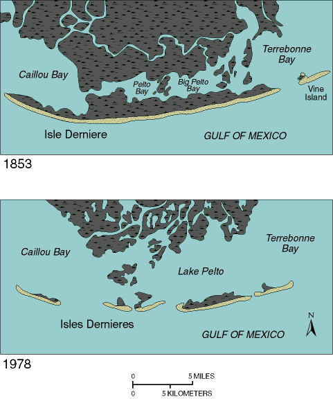 Geographical comparison of the landscape around Isles Dernieres in 1853 and 1978